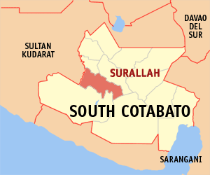 Map of the South Cotabato showing the location of Surallah